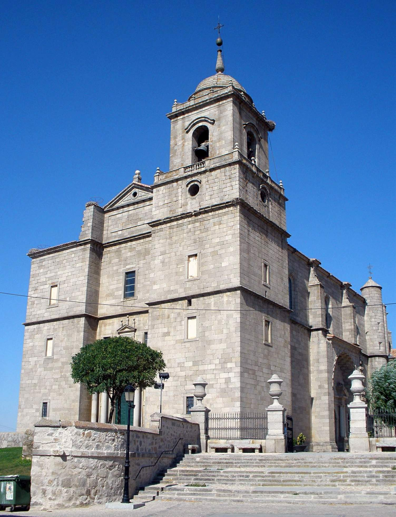 Church of San Sebastián, Villacastín (Segovia)